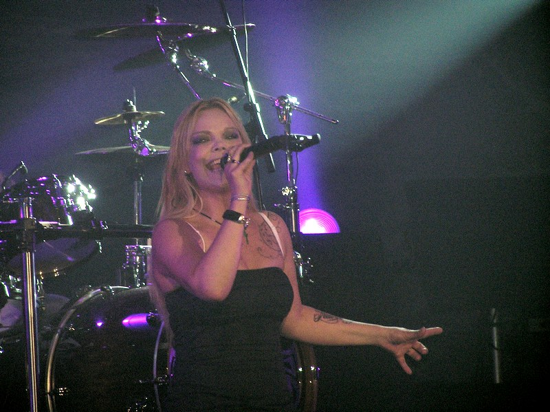 Nightwish live in Zagreb, Croatia